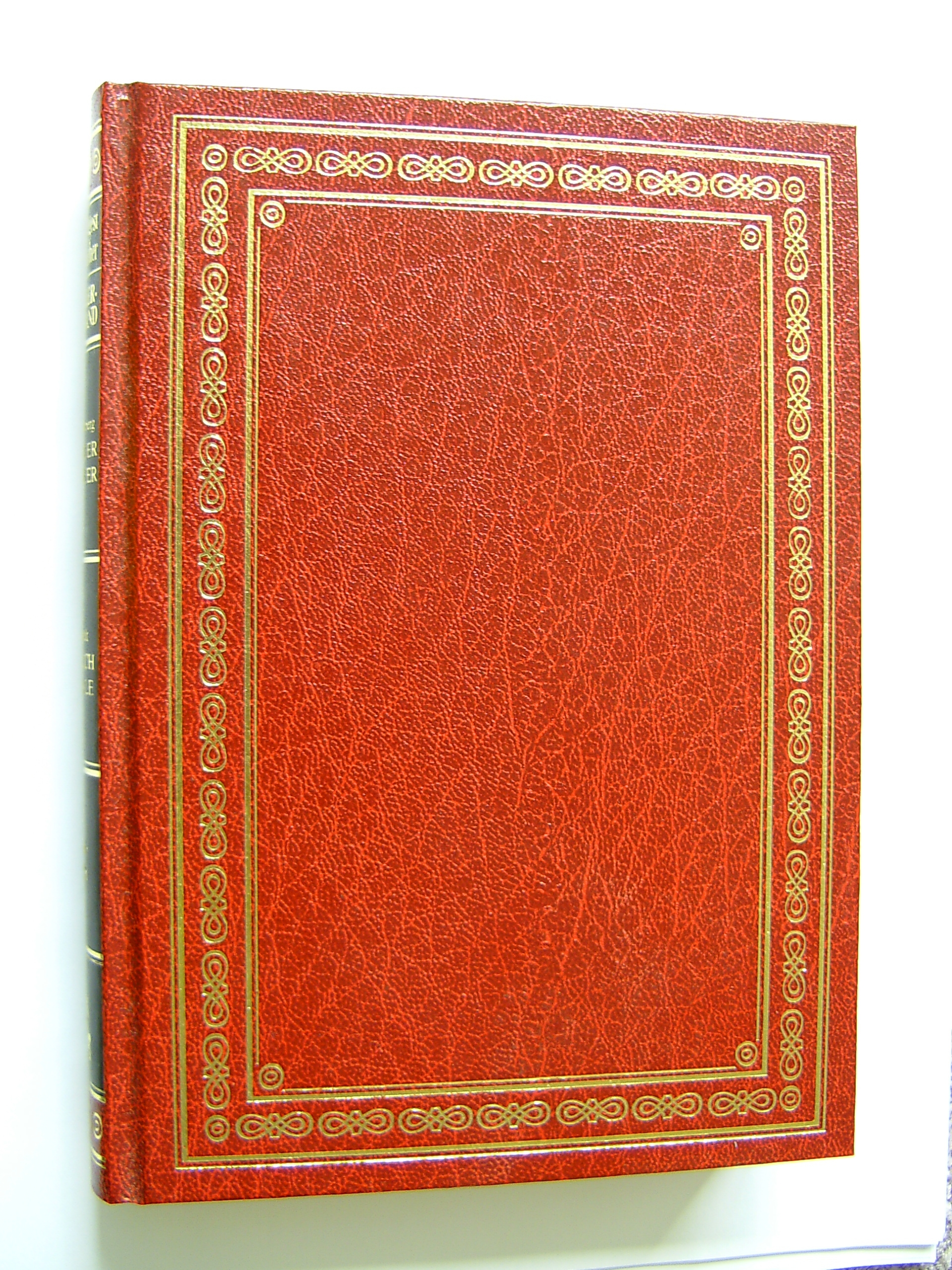 book cover of German Reader's Digest collection book, 1988. simple shape cover design